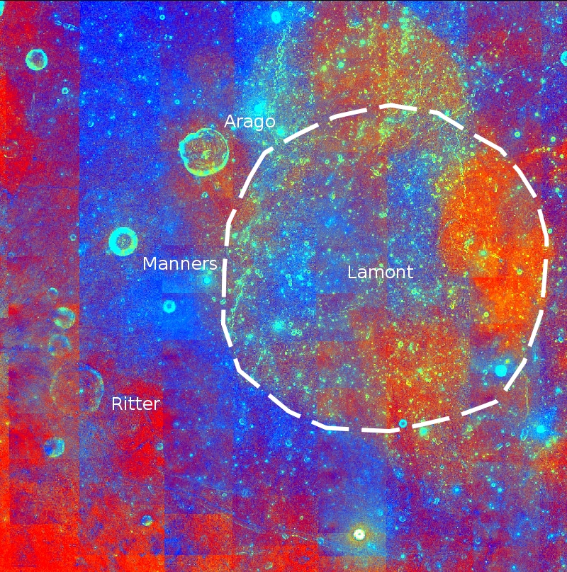 UV/VIS ratio map of area around lunar feature Lamont. Image by Clementine spacecraft.